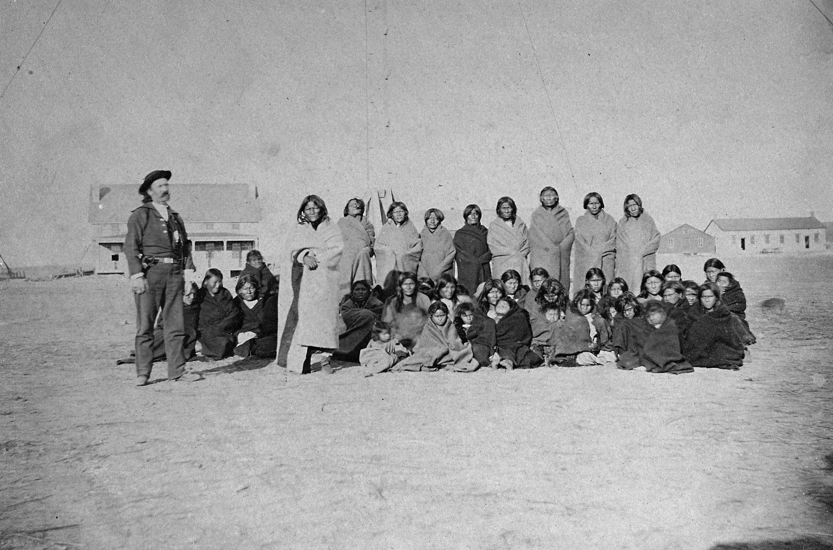 Imperial albumen print photograph, 5 5/16 by 7 7/8 inches, group portrait of Cheyenne captives following the attack on Washita by Custer's forces, 1868, Kansas, mounted to card. Most of the Cheyenne captives are visible in this photograph, taken at Fort Dodge en route to the stockade at Fort Hays, Kansas; to the left stands U.S. Army chief of scouts John O. Austin.